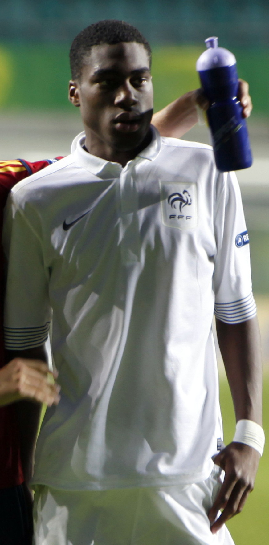 José Campaña and Geoffrey Kondogbia after Spain-France, UEFA Euro U19 2012.